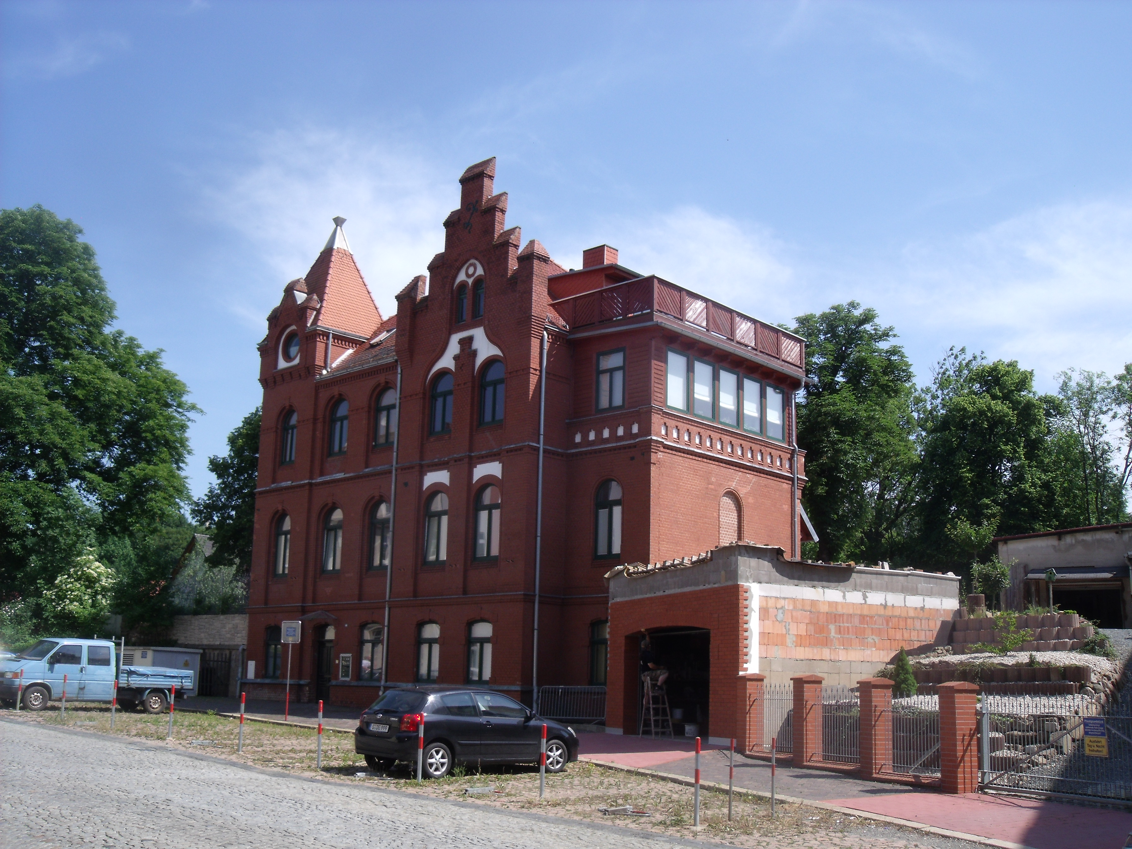 Former Gera-Pforten station of the abandoned Gera-Meuselwitz-Wuitzer-Eisenbahn (GMWE), condition in the year 2011